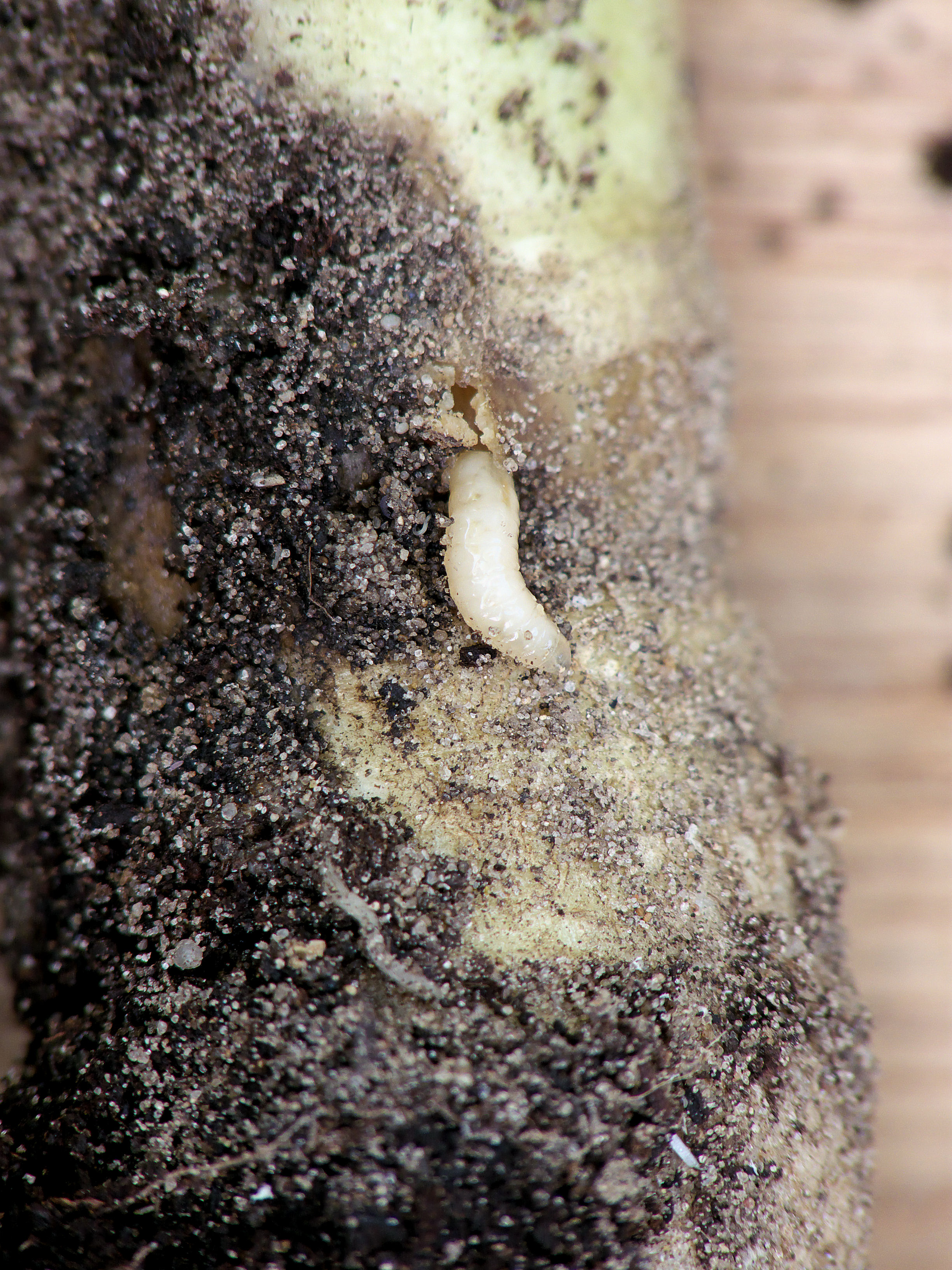 Delia radicum